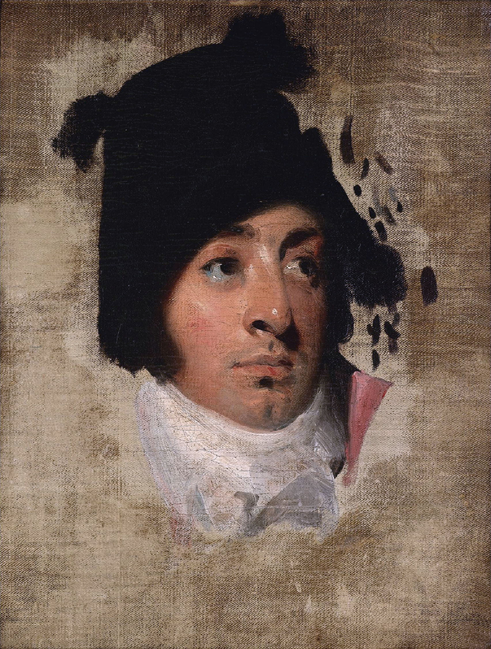 John, Lord Mountstuart MP (1767 - 1794) oil on convas 43 x 34 cm study for full length portrait